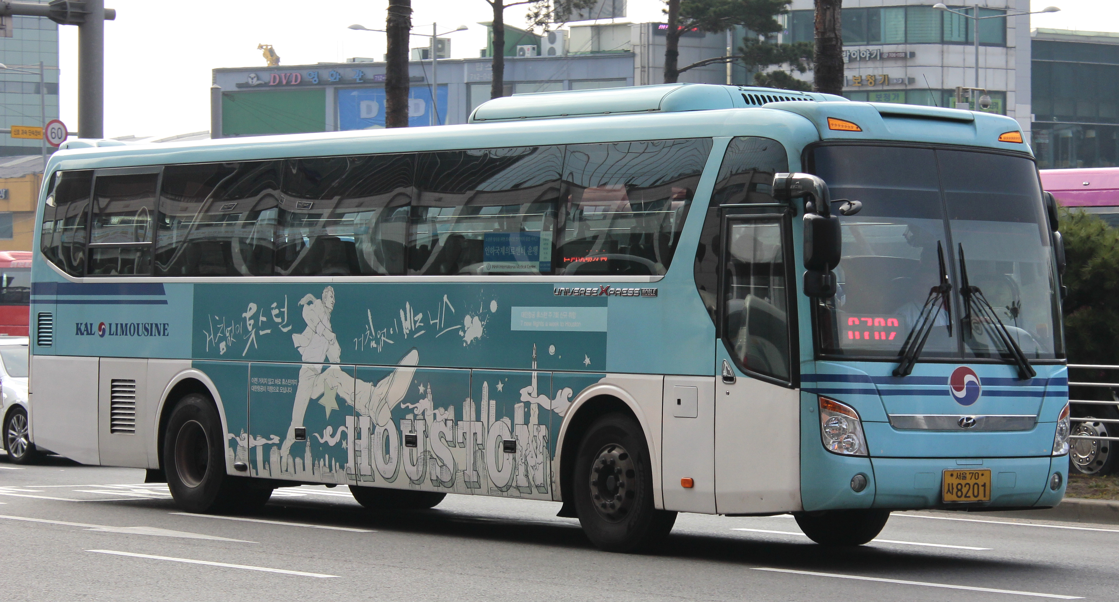 Hyundai Universe Xpress Noble Motorcoach Westbound(to ICN)